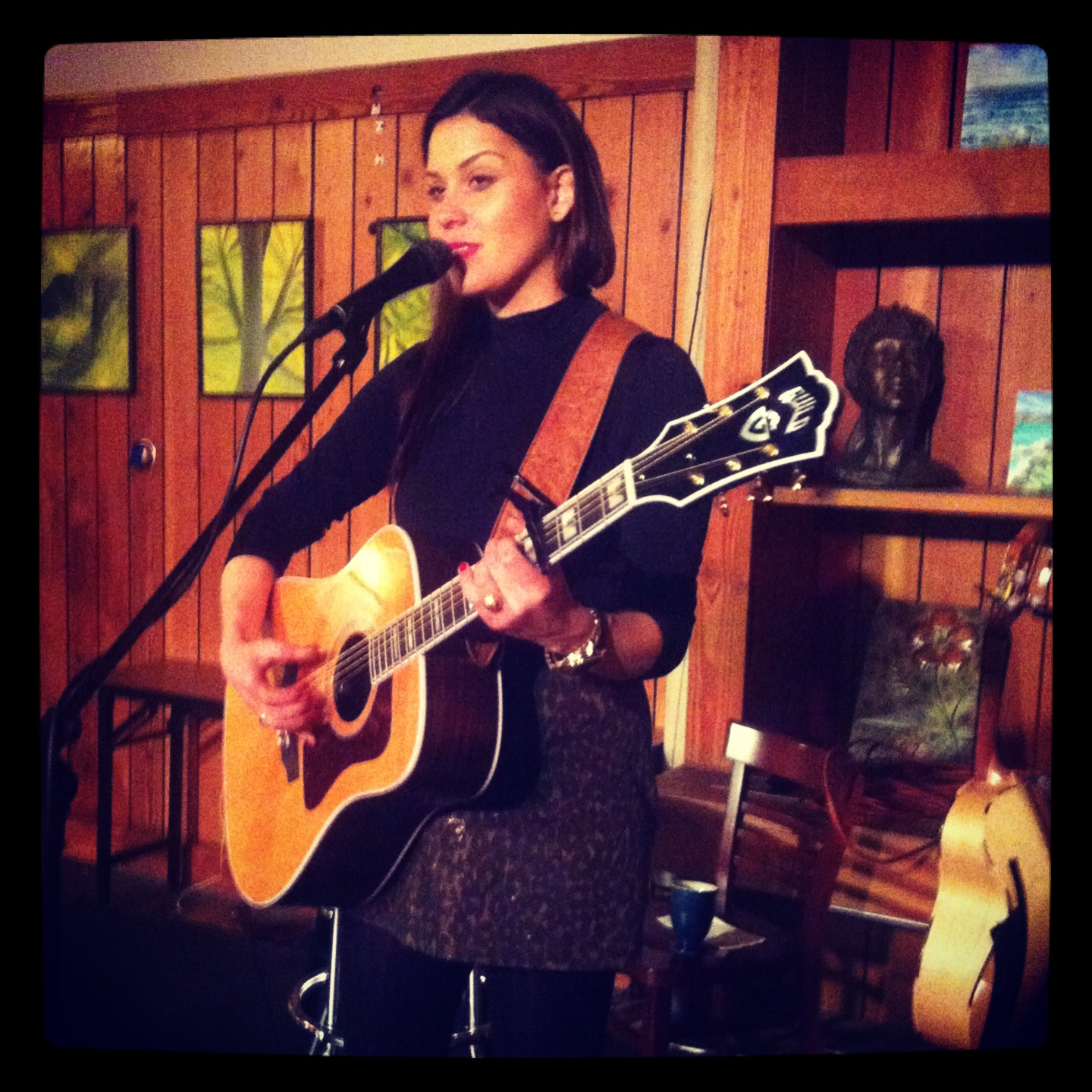 Aly Tadros performing at the New Leaf Cafe in Bryn Mawr, Pennsylvania, on March 8, 2013